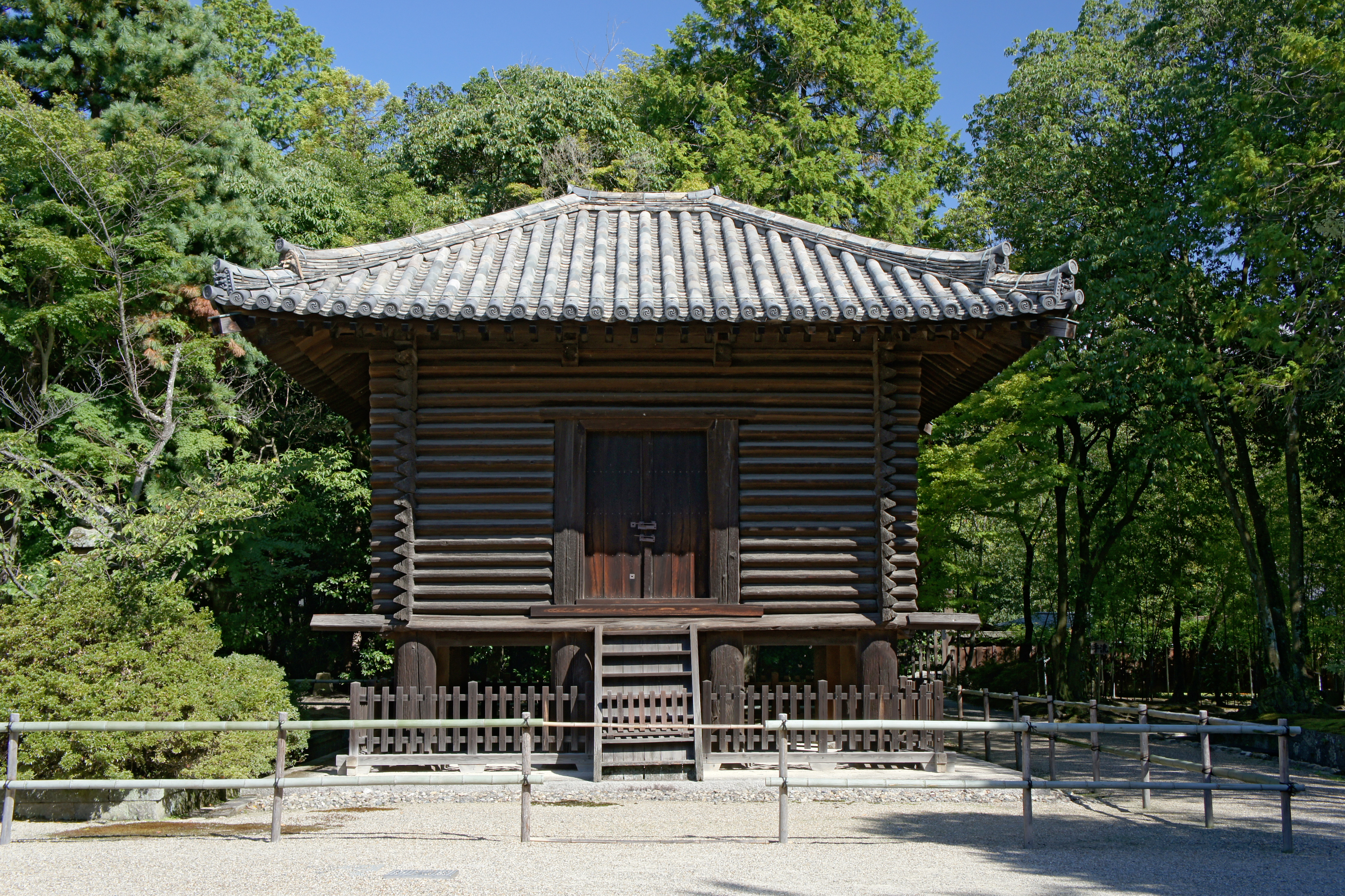 Tōshōdai-ji's Kyōzō is a Japan's National Treasure in Nara, Nara prefecture, Japan. It was built at the Nara period (AD 710 to 794).